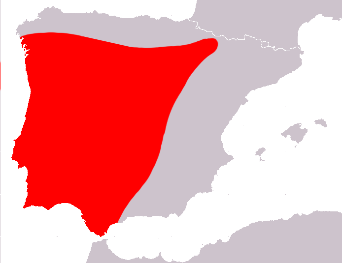 Psammodromus manuelae range map.